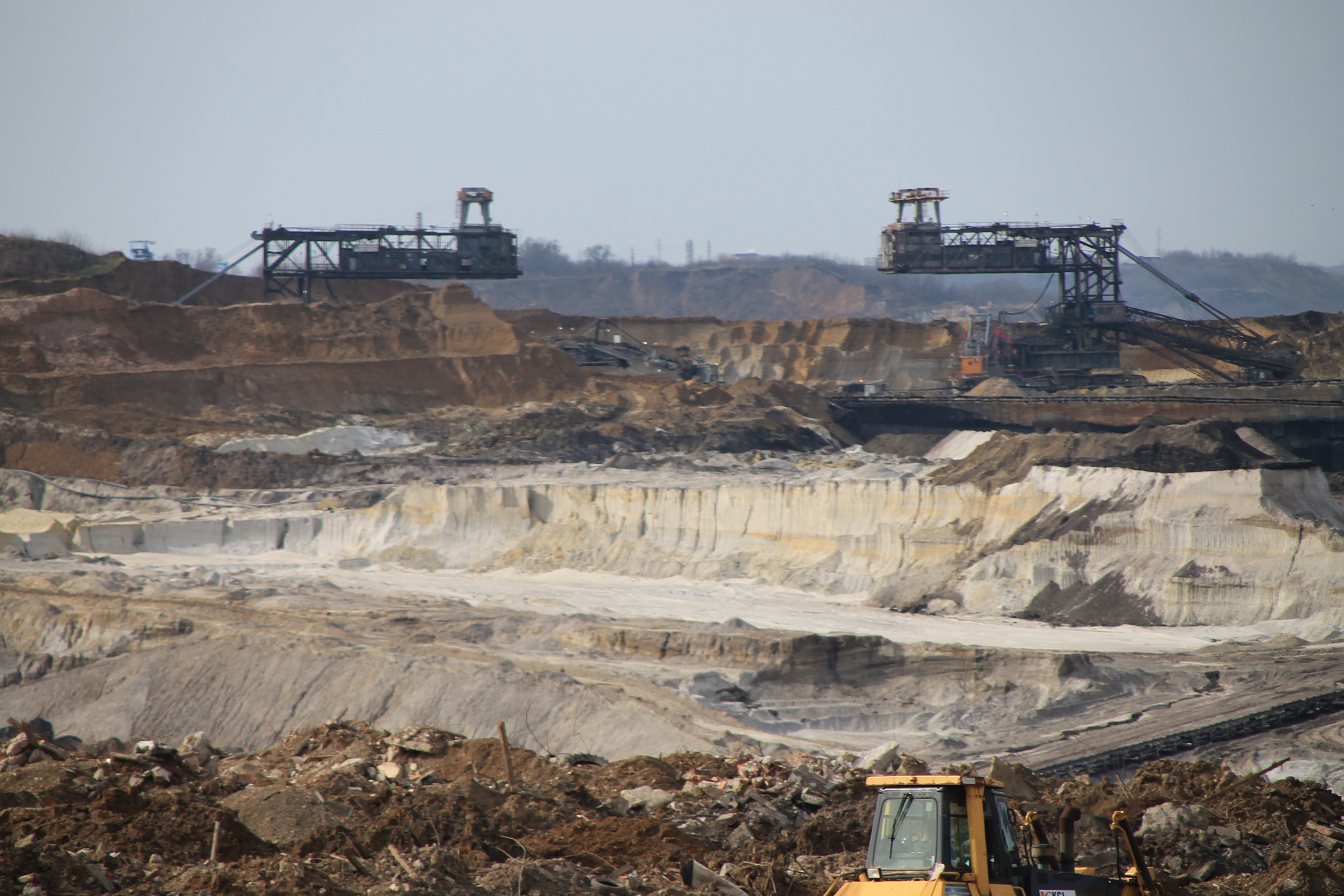 Kolubara mining basin